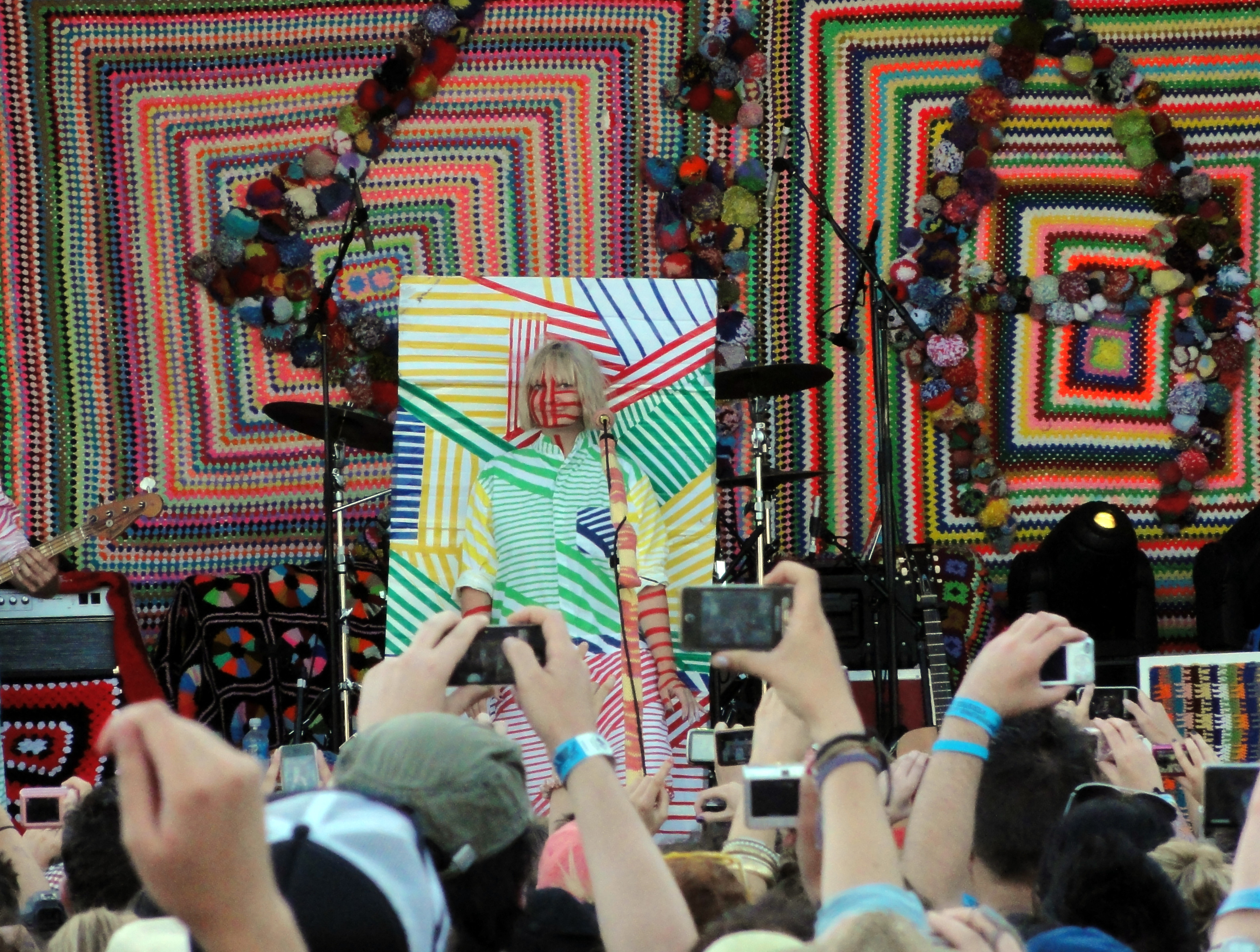 Sia performing at 2011 Big Day Out, Melbourne